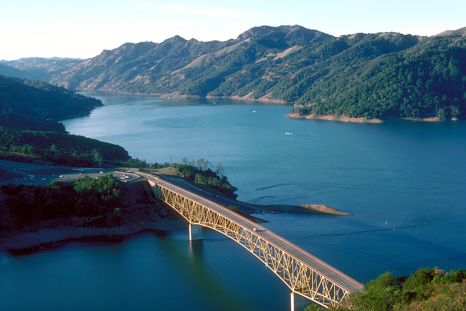 Aerial view of Lake Sonoma on Dry Creek in Sonoma County, California, USA. The lake is impounded by Warm Springs Dam, constructed in 1983 by the U.S. Army Corps of Engineers for flood control and water supply. The dam is just off to the right and is not visible in this picture. View is to the northwest. Coordinates: 38°43′8.04″N 123°0′47.62″W / 38.7189°N 123.0132278°W